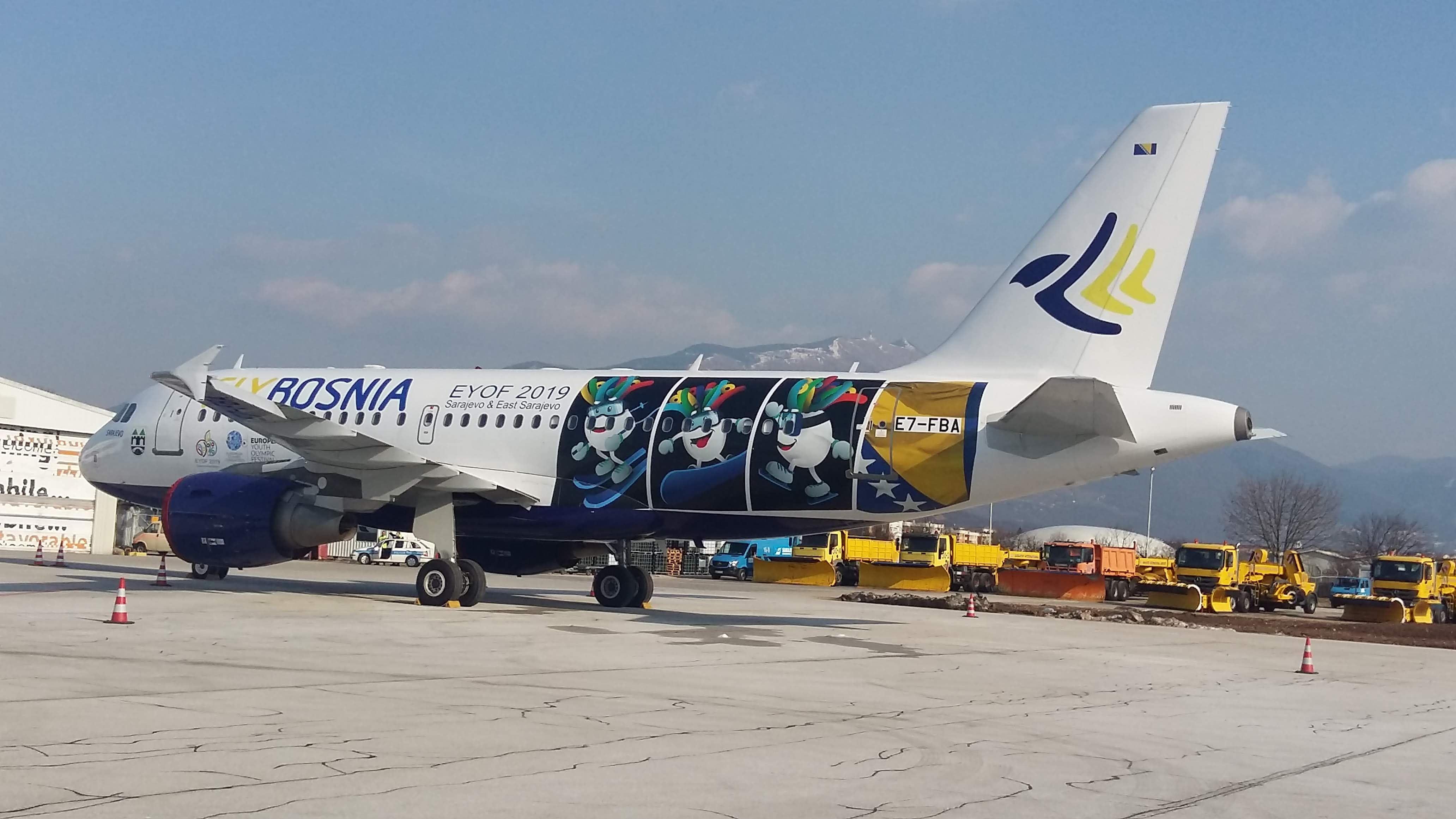 E7-FBA at Sarajevo International Airport